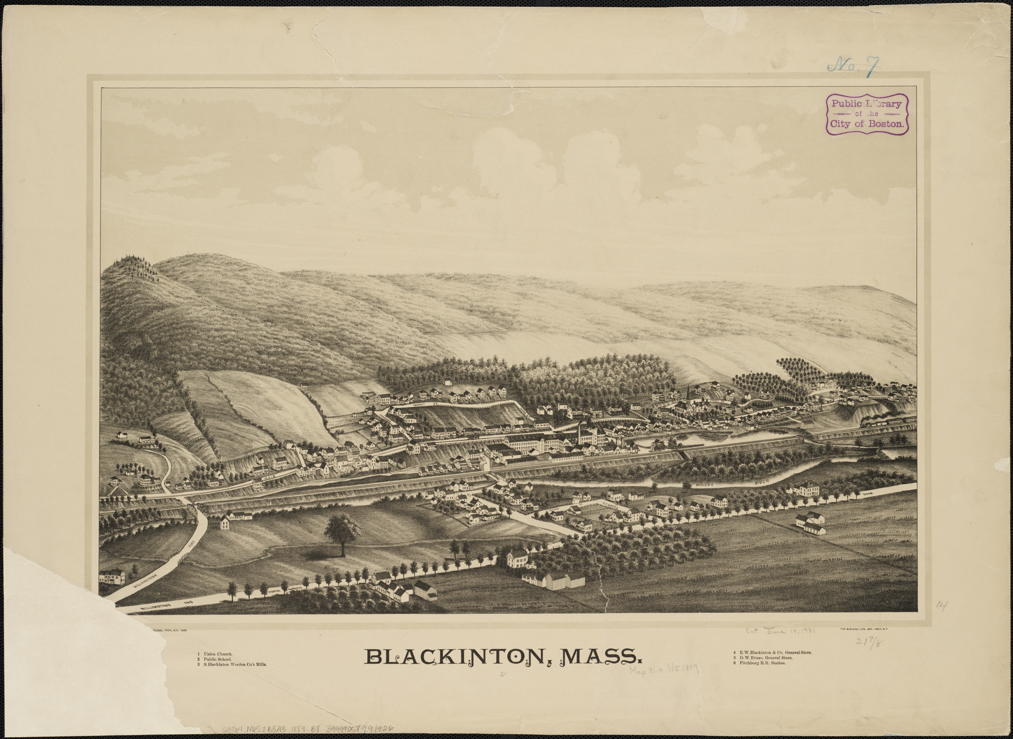 Zoom into this map at . Author: Burleigh, L. R. Publisher: L.R. Burleigh Date: 1889 Location: Blackinton (North Adams, Mass.) Scale: Not drawn to scale. Call Number: G3764.N65:2B5A3 1889.B8